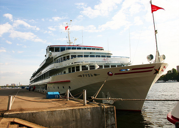 Russ is a four-deck ship of the 302 project. It was built in 1987 in Germany. The ship has a modern navigation system and develops speed of up to 25,5 km/hr. The capacity is 288 passengers. Its length is 129 meters, width is 16,7 meters and immersion is 2,9 meters.